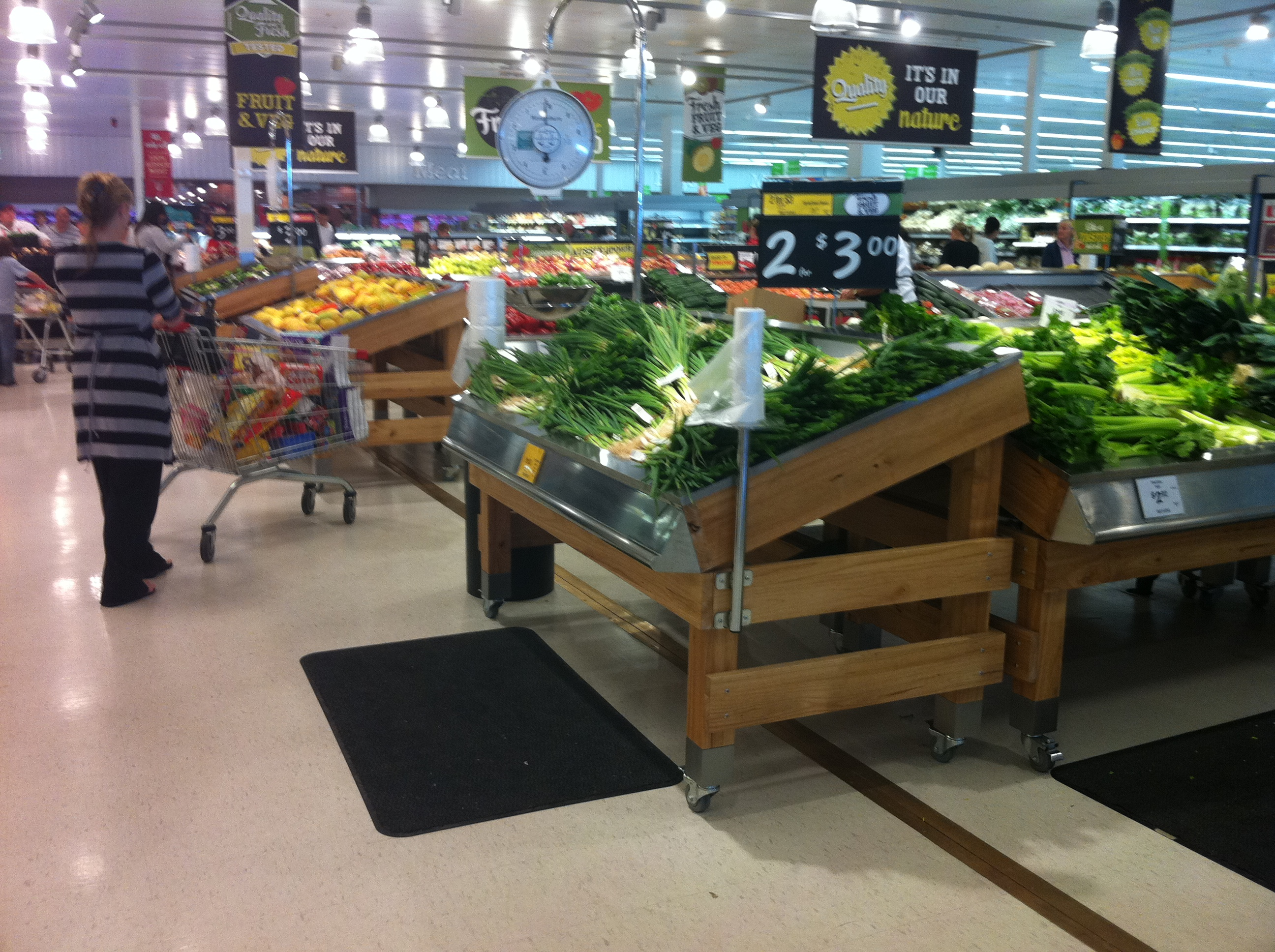 Inside a refurbished Coles Supermarket